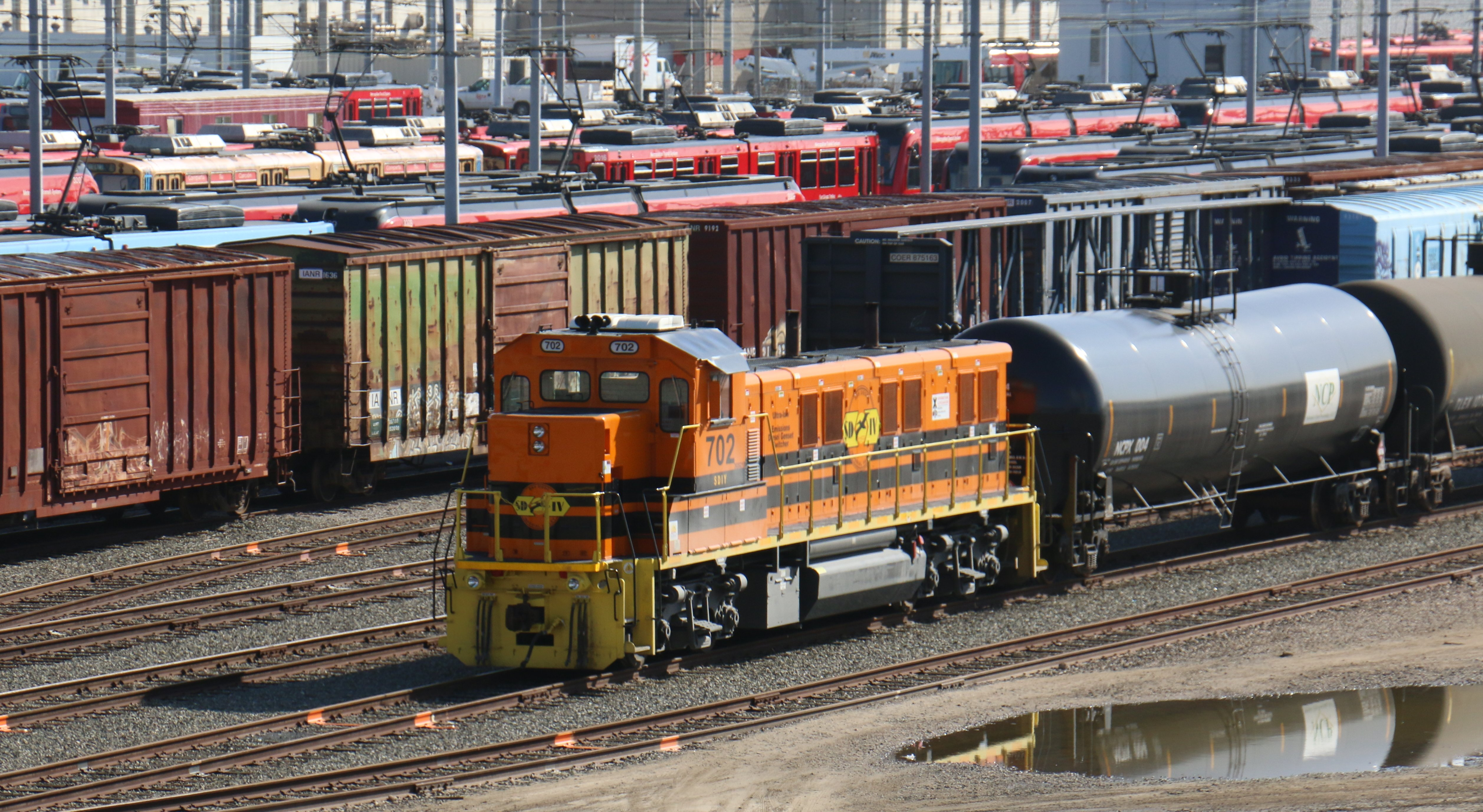 SDIV 702, a switcher locomotive for the San Diego and Imperial Valley Railroad, a short line railroad in San Diego California.